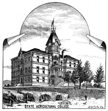 Etching of Benton Hall, Oregon State University. It was used in early OSU catalogs in this format in 1889-90 and 1890-91.